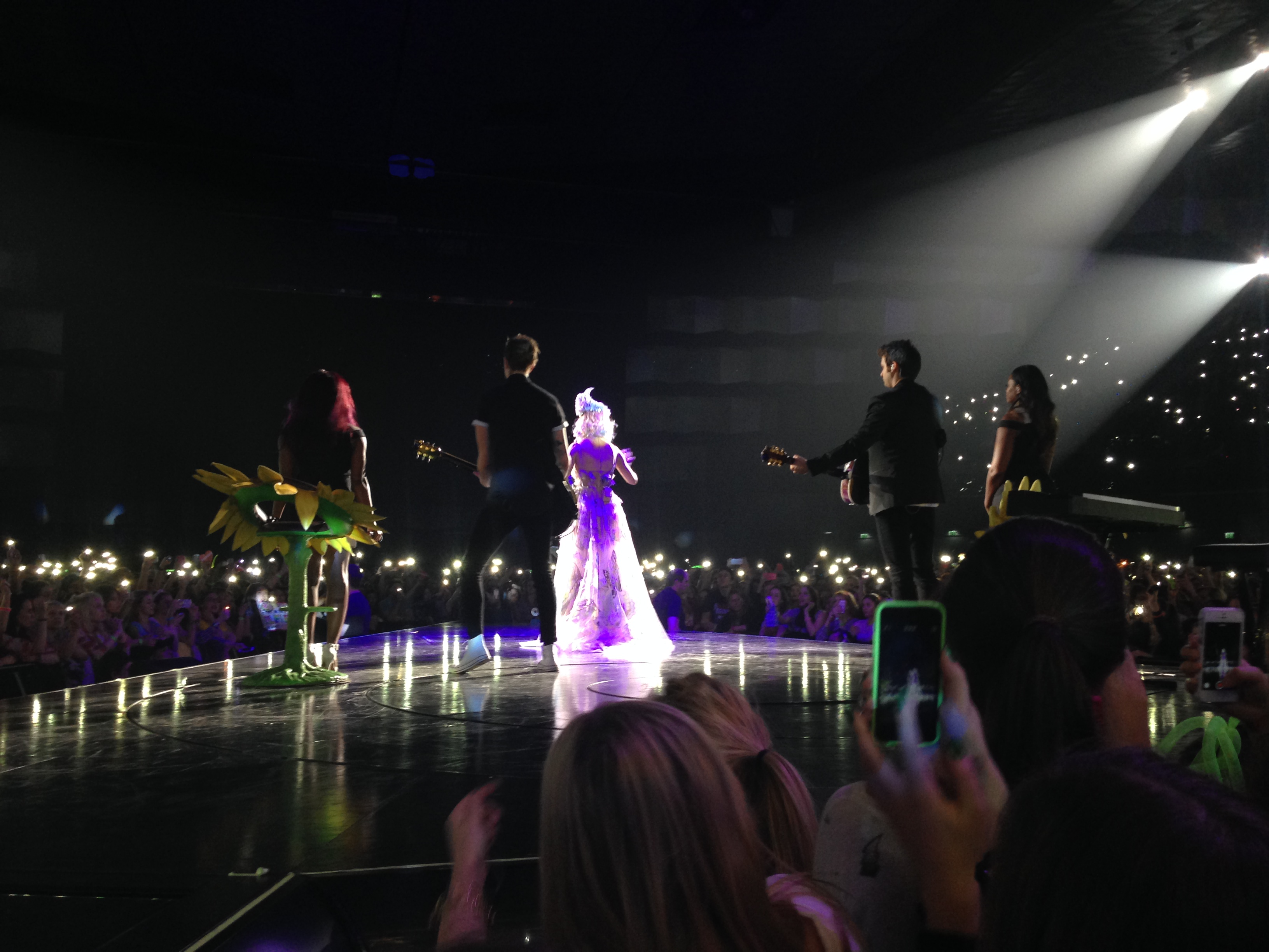 That is Katy Perry, photographed from the Reflection Section, during her Acoustic leg of the Prismatic World Tour